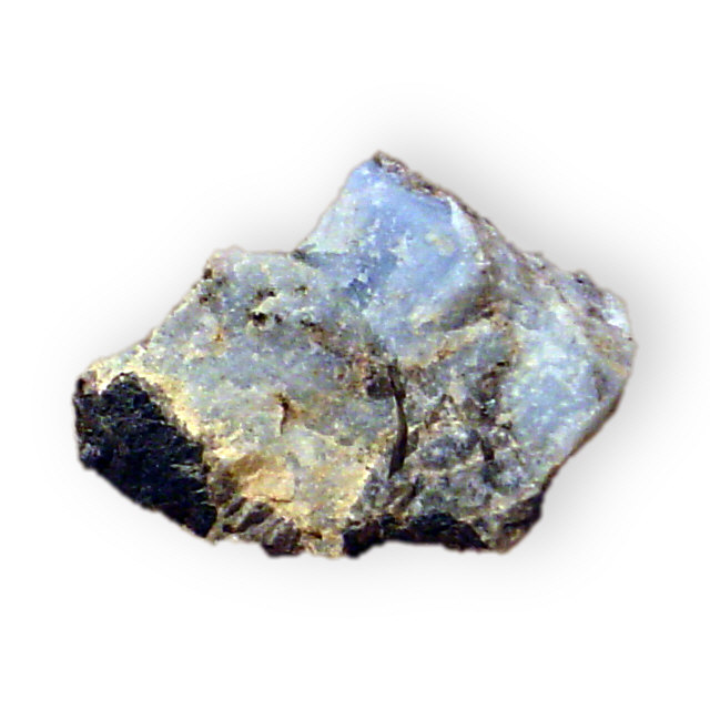 These mineral images are free to use how you wish.